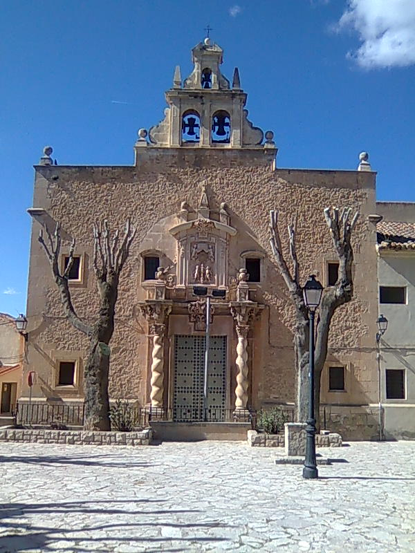 Church of the Convent San Agustin in Almansa (Spain).